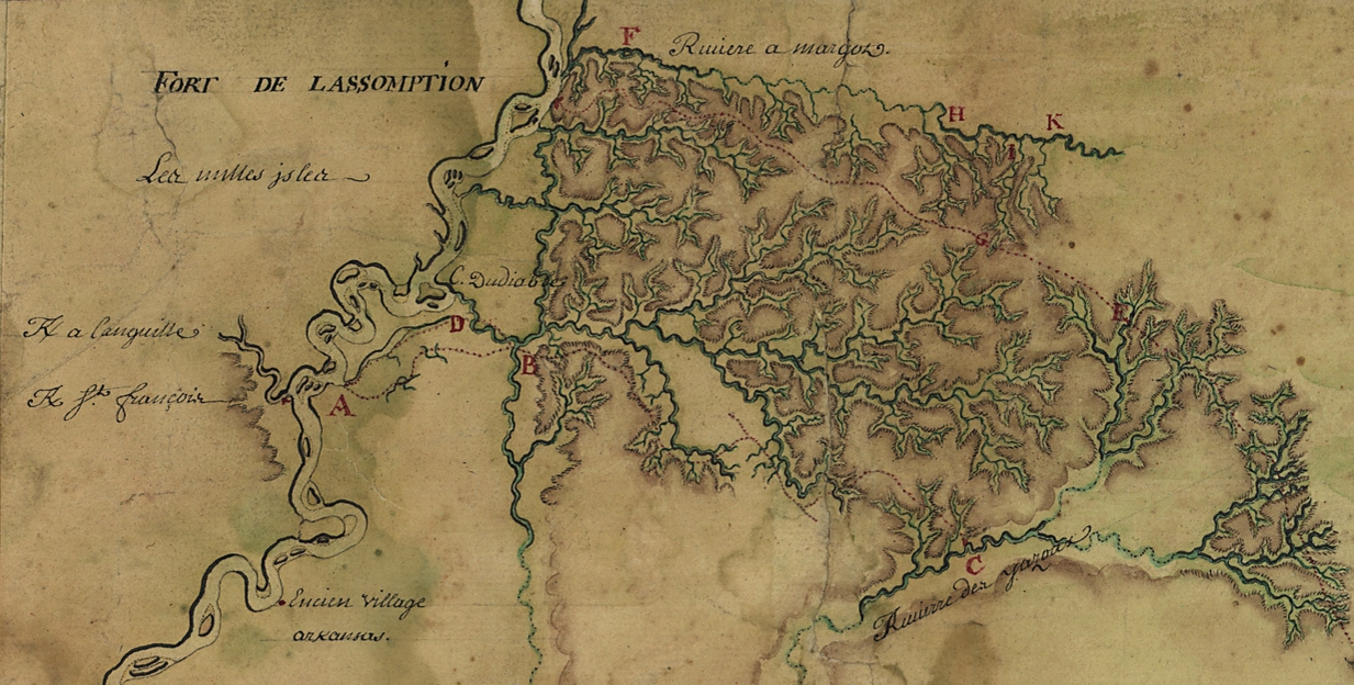 Detail of a French map depicting what today is the Memphis, Tennessee area. "This map of the Mississippi River Valley from Memphis to the Gulf of Mexico as far east as Mobile includes interior streams, routes, European communities, and Native American settlements and nations, fortifications ... Map concentrates on the surveys of Broutin, Vergés, and Saucier in Mississippi and Alabama ..." Map is a digital copy from the U.S. Library of Congress.